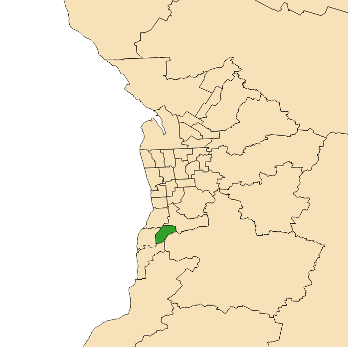 Electoral district 2018 boundaries shown in green